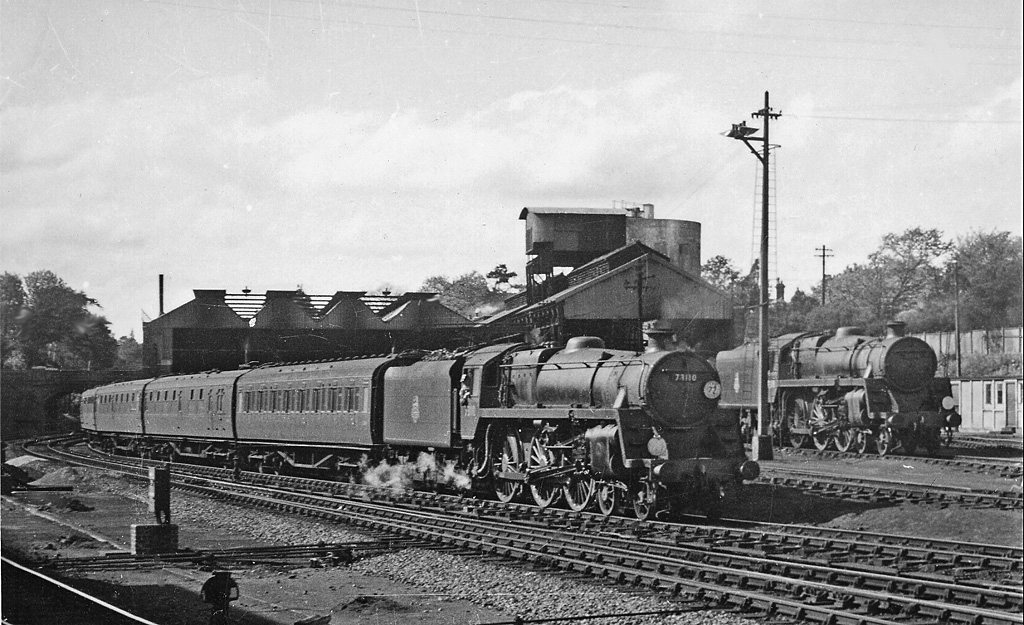 Bournemouth SR 'taken over' by British Railways. View NW, towards Bournemouth West, Poole and Weymouth, from the Down platform at Bournemouth Central, across to the Locomotive Depot. There are no Southern engines to be seen, as BR Standard 5MT 4-6-0 No. 73110 is approaching the station on empty stock and only sister-engine No. 73118 is visible.